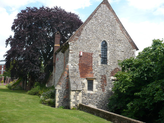 The only remaining building of the 1st English Franciscan Friary, built in 1267. It was a considerable monastery until the dissolution by Henry VIII in 1538, when the brothers were banished.